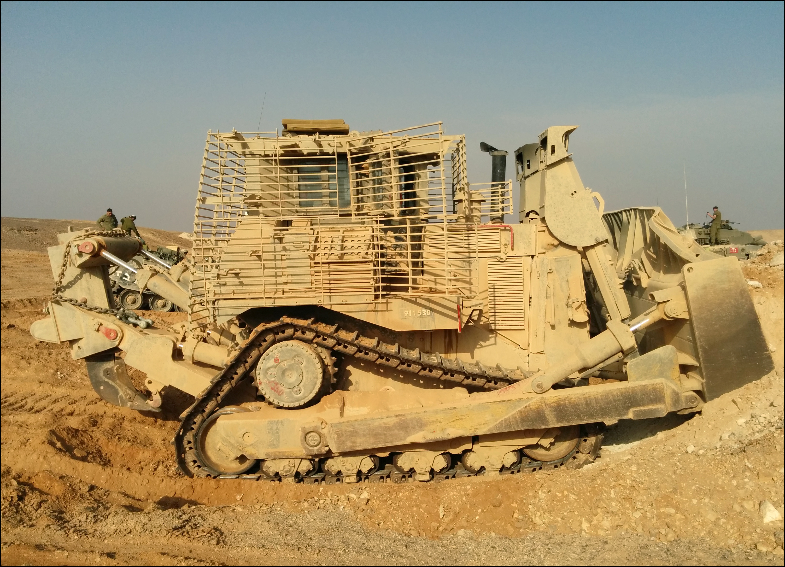 IDF Caterpillar D9R armored bulldozer training in the Negev desert, Israel